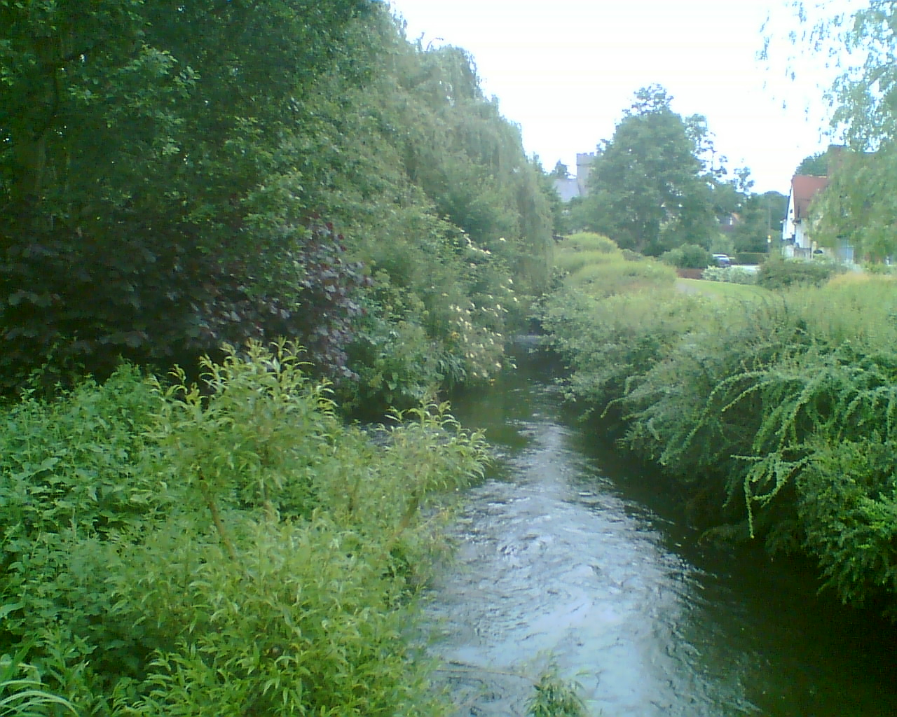 The River Wye, close to Wooburn Green, at the Mills Industrial Estate opposite of the Old Bell pub.